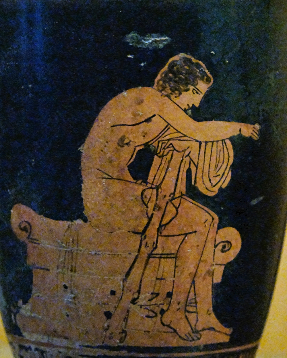 Naked and beardless Heracles. Attic red-figure lekythos, 450–400 BC. From Gela.